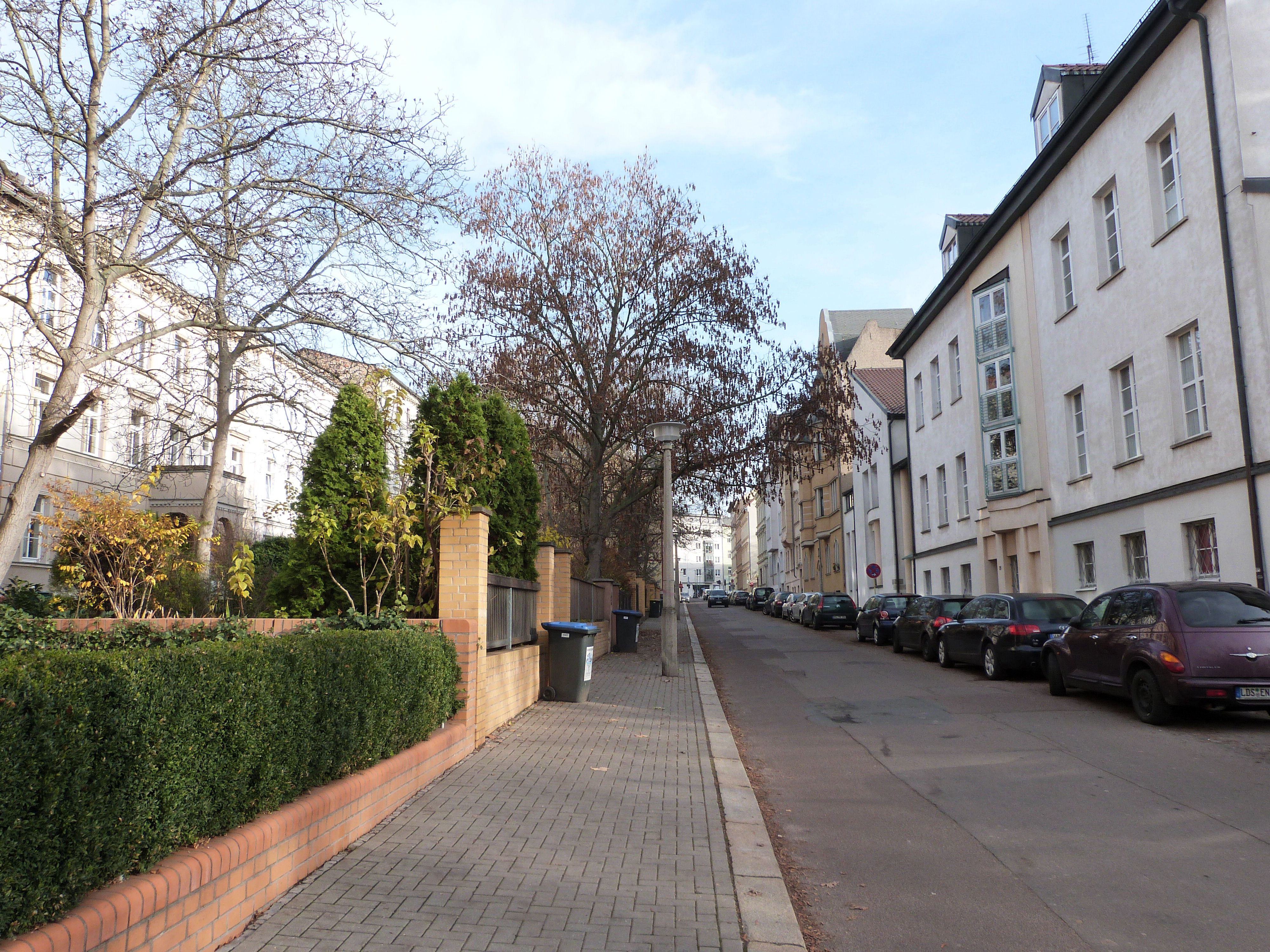 Gütchenstrasse in Halle (Saale), Saxony-Anhalt